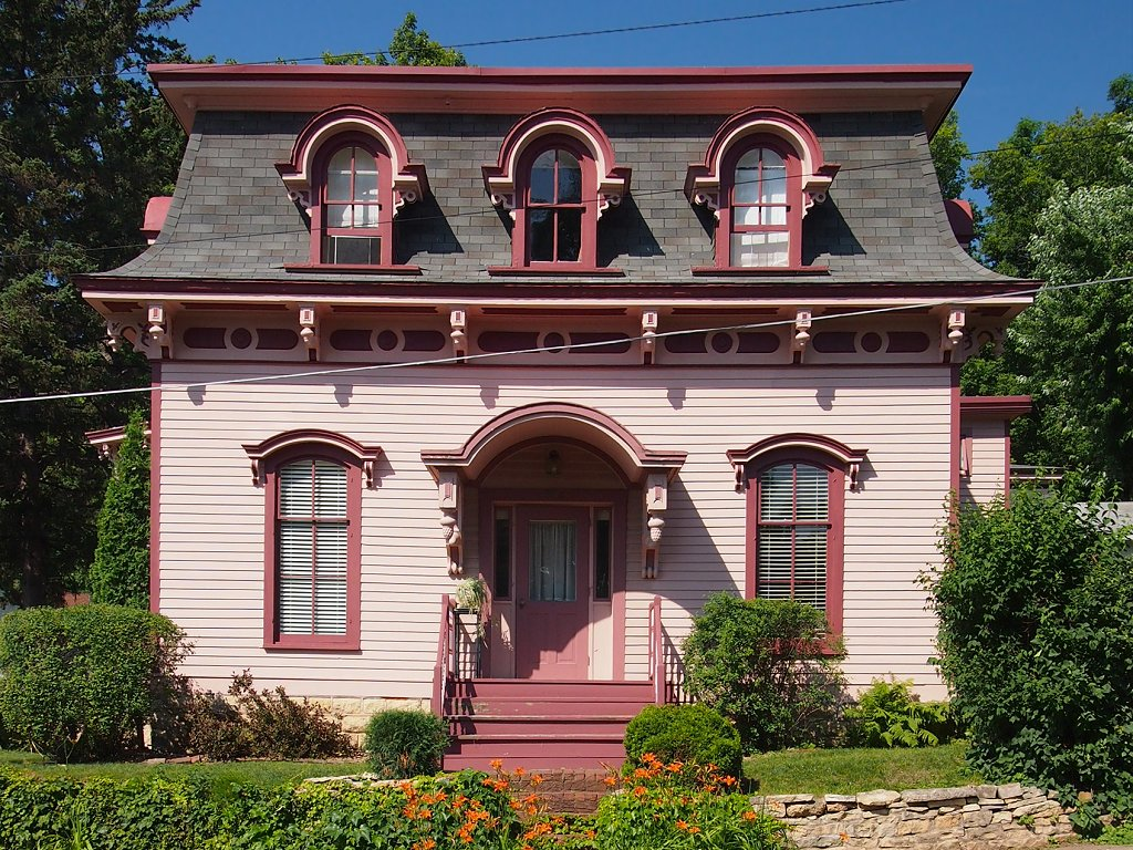 Ivory McKusick House, Stillwater, Minnesota, USA. Viewed from the east.